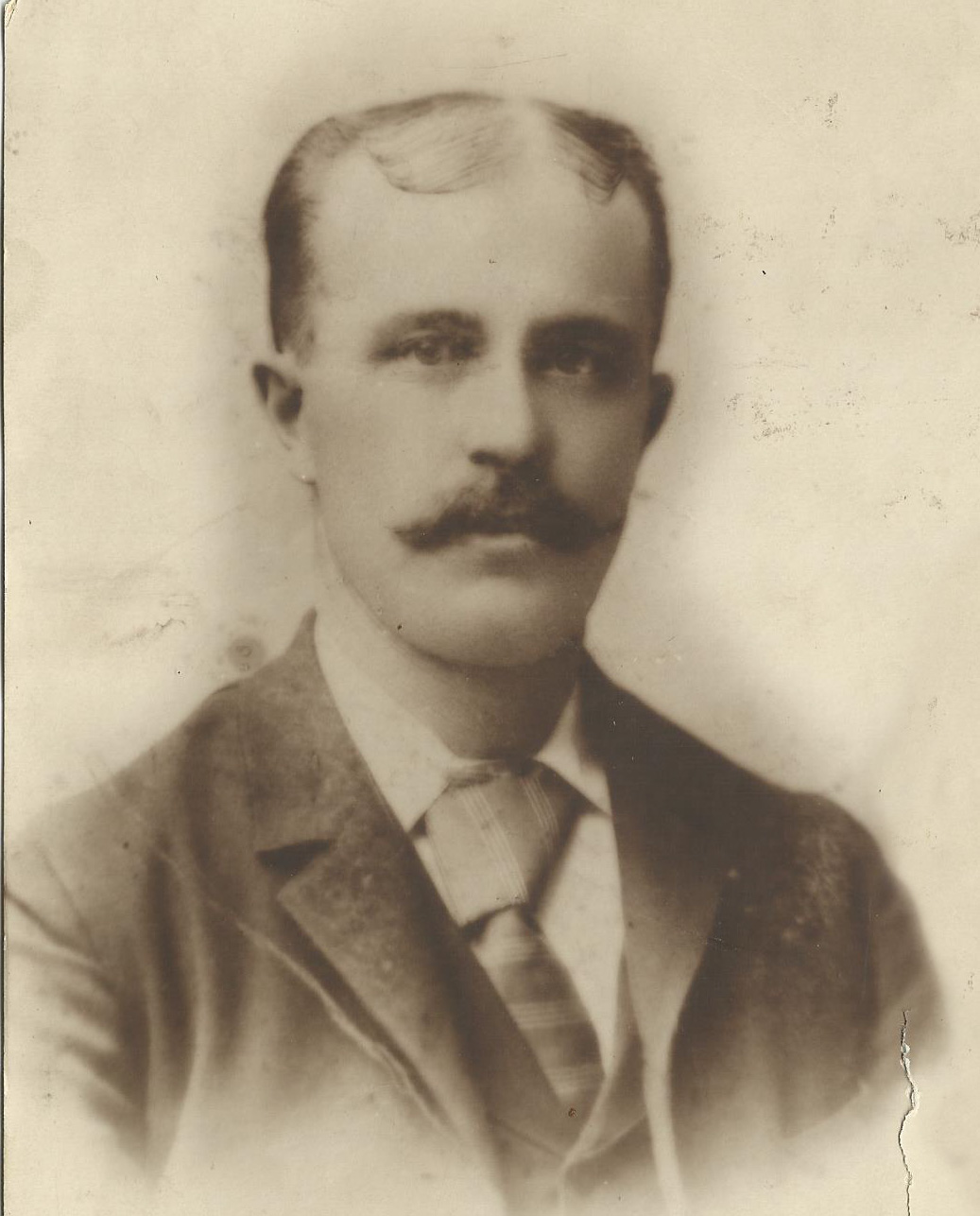 Born in 1857, in Arichat, Nova Scotia, Canada